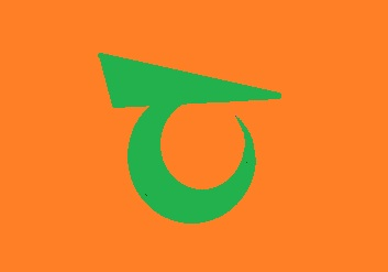 Flag of Tenryu Nagano